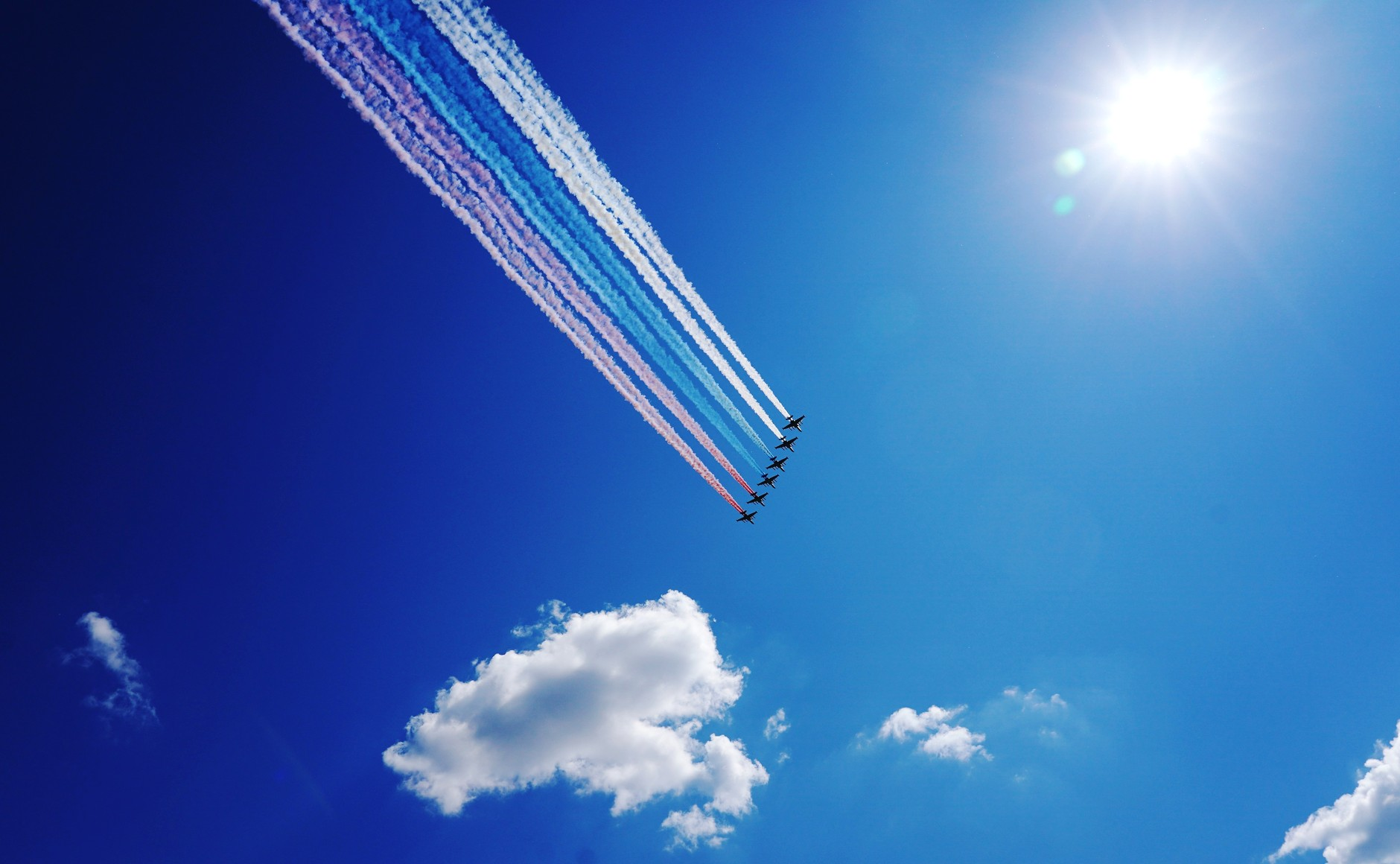 2020 Moscow Victory Day Parade Аҧсшәа: Военный парад на Красной площади в Москве 24 июня 2020 года